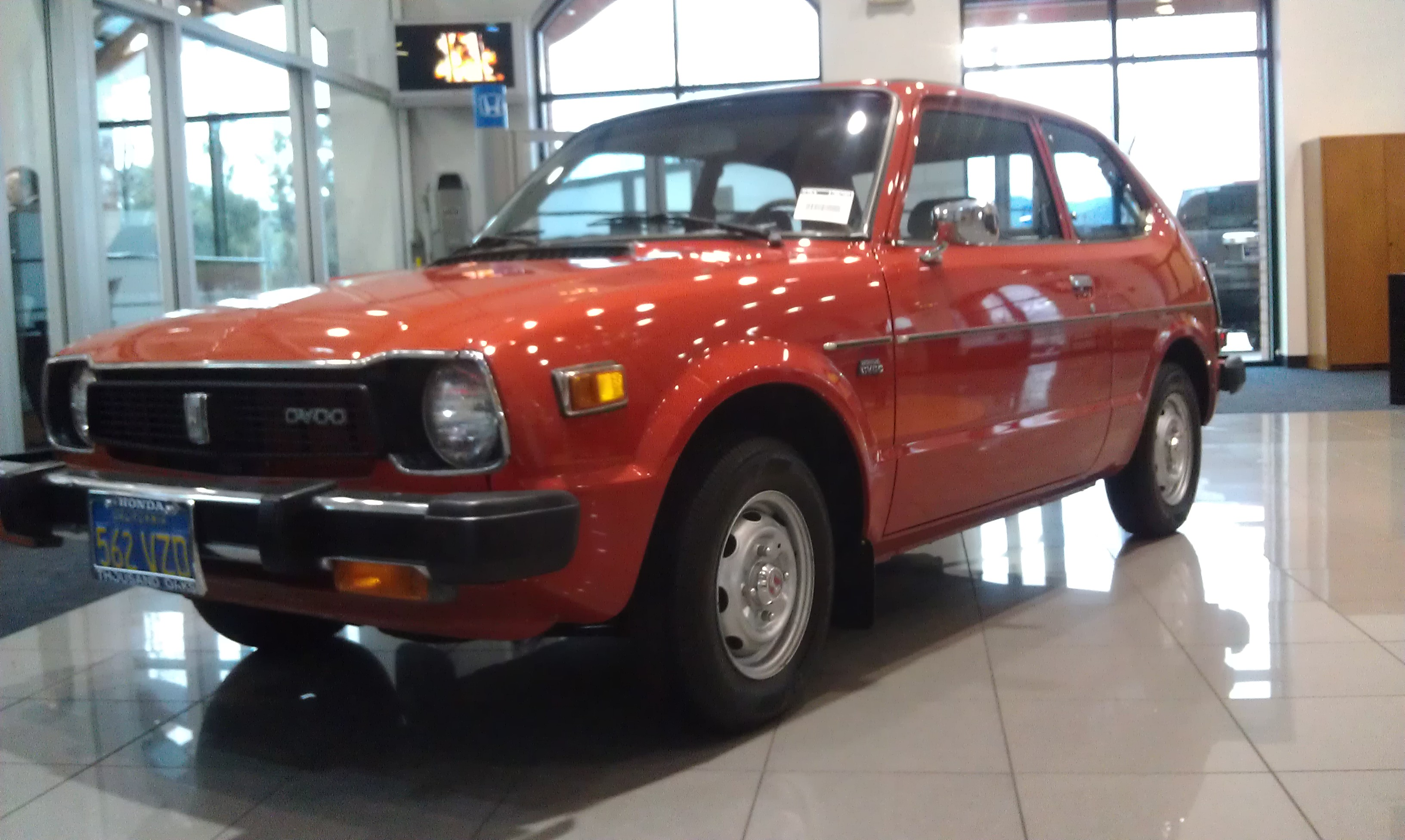 1978 Honda Civic, in the Honda of Thousand Oaks showroom